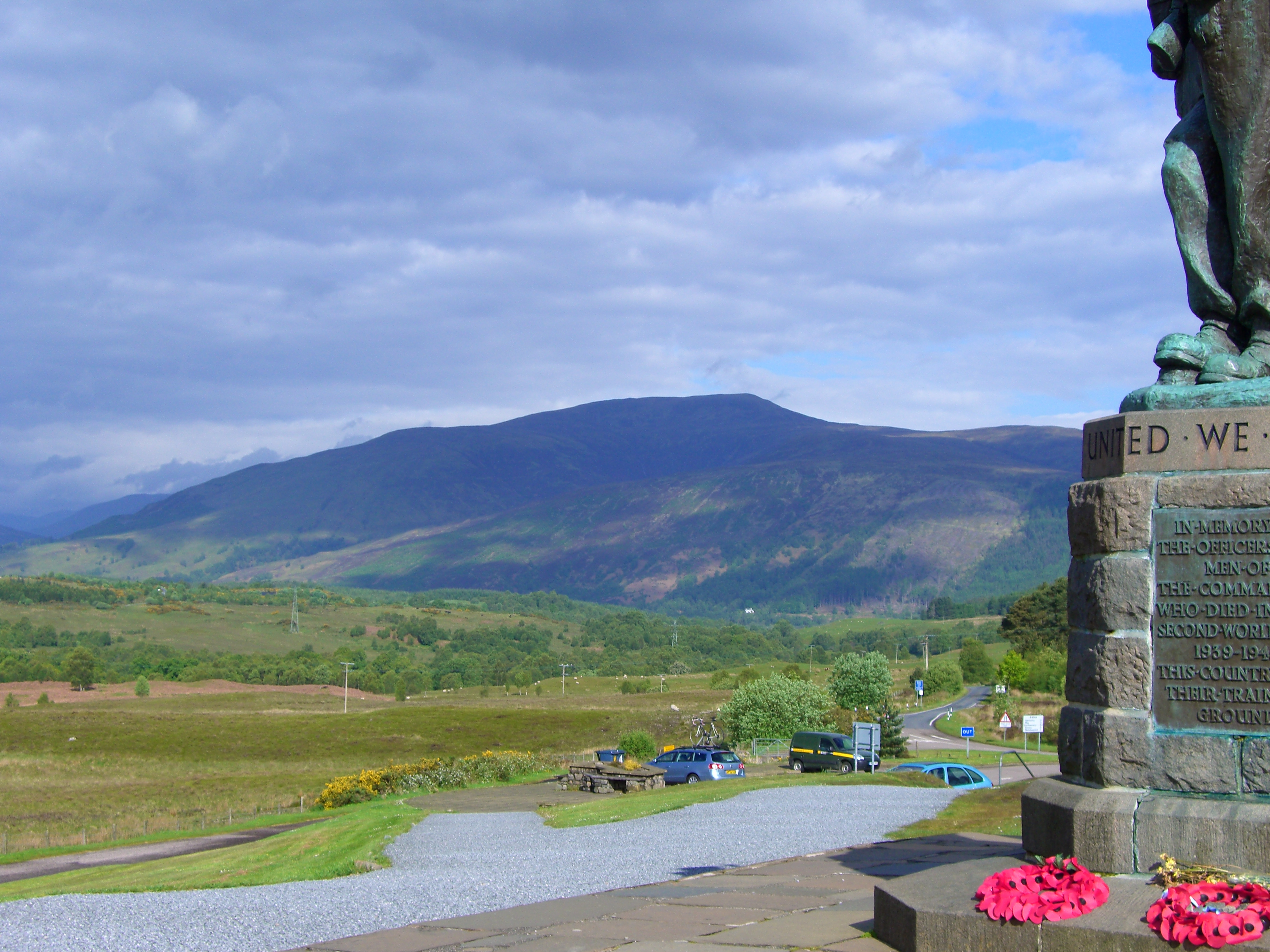 The Scottish hill Beinn Bhàn in the Lochaber region. It reaches a height of 796 metres. It is seen here from the Commando Memorial at Spean Bridge, 6 miles to the SE.